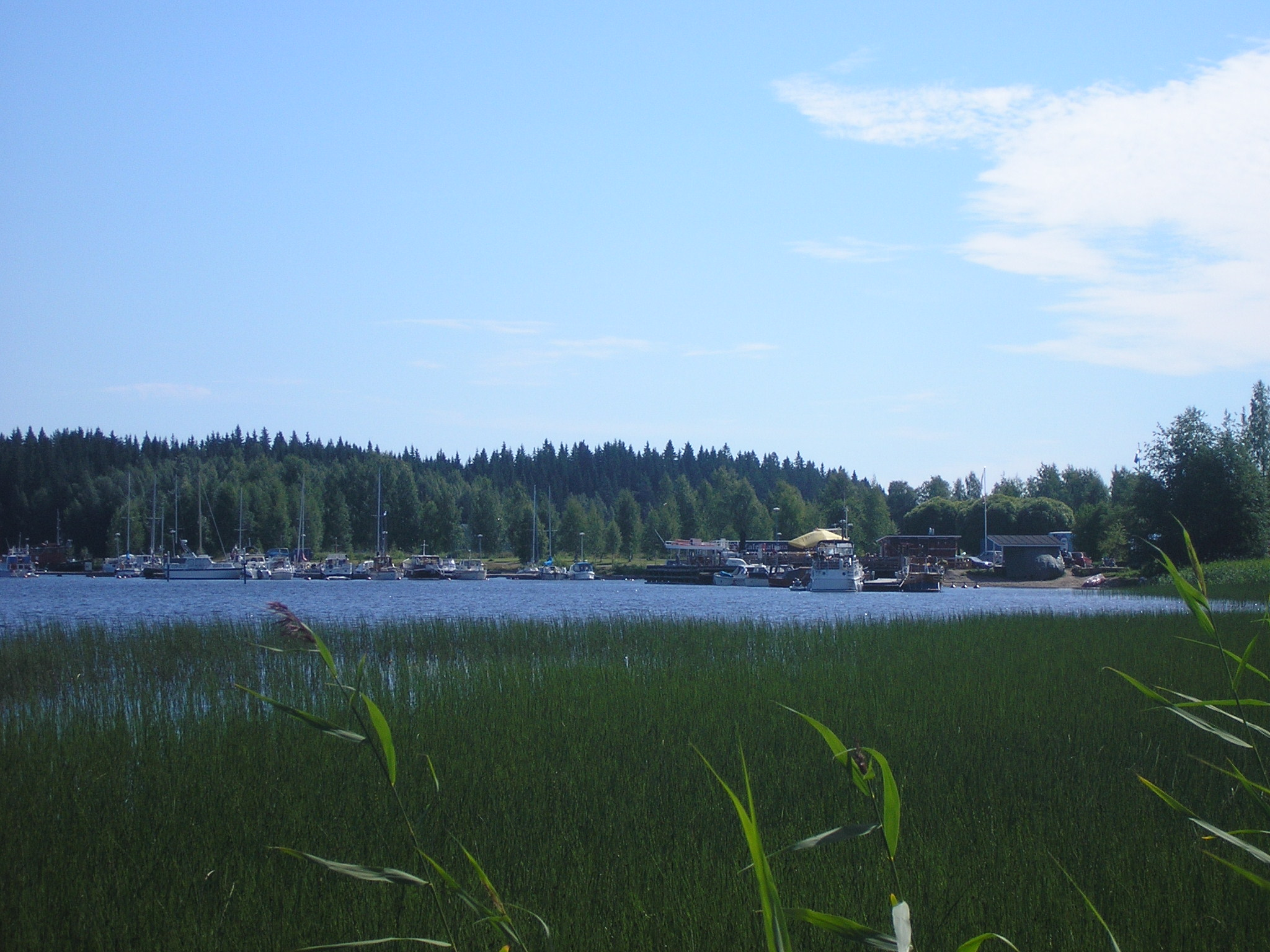 Ruovesi harbour